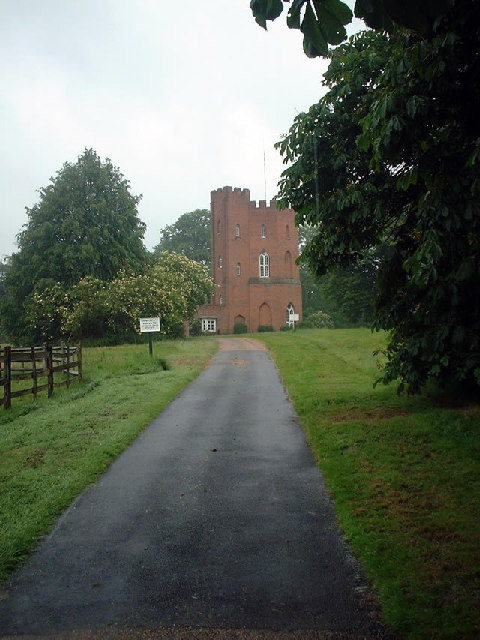 Cranbourne Tower North-west of the A332, Windsor-Bracknell road, Cranbourne Tower is a private residence belonging to the Crown and is one of the most historic lodges in Windsor Great Park.